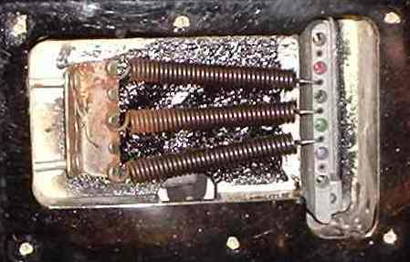 Detail of the back of a stratocaster copy showing the tremolo arm mechanism. Note that two of the original five springs have been removed to allow for the use of lighter strings. See also Image:Strat copy.jpg. This is an original photograph by Andrew Alder, taken on 9 March 2006.